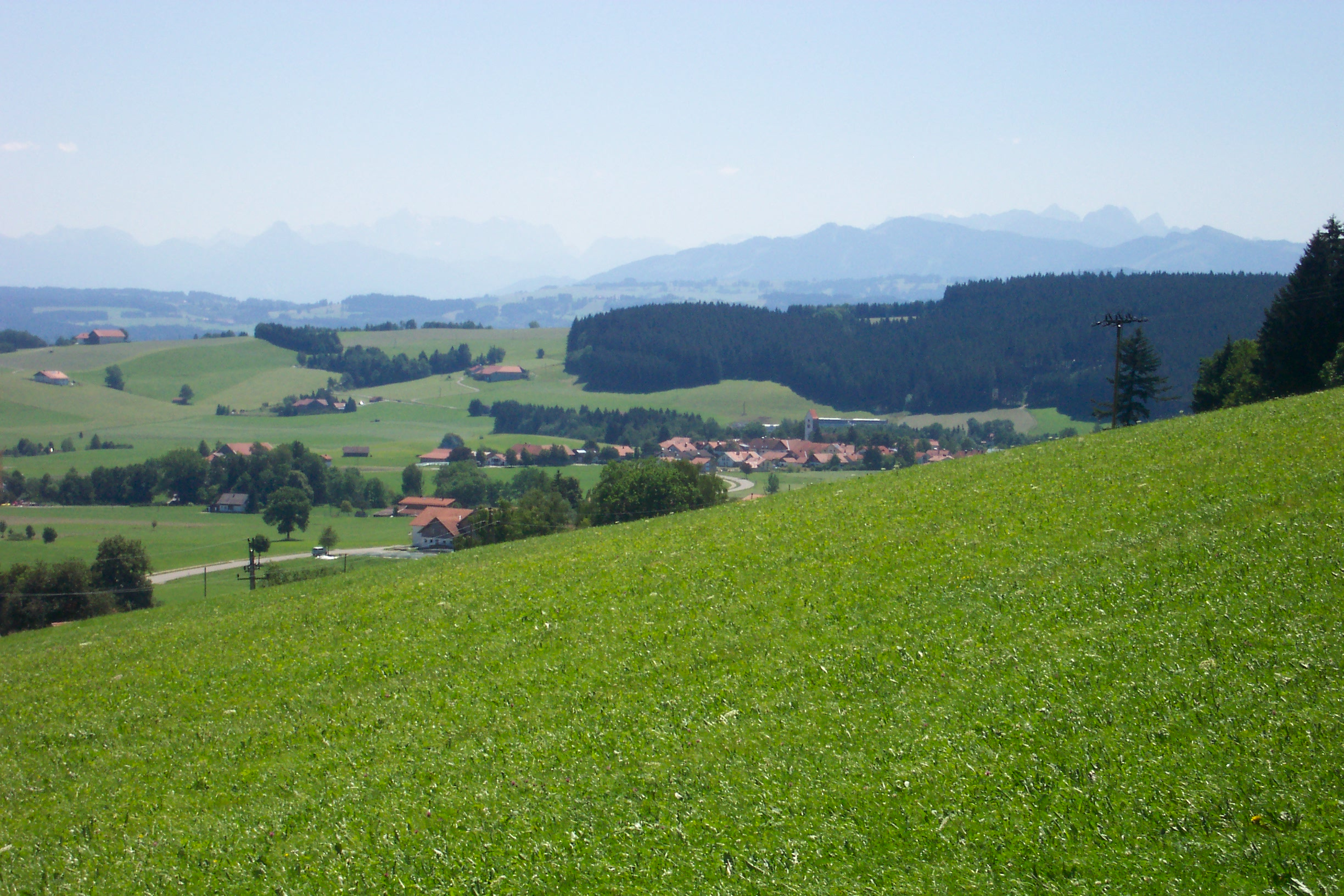 view over the district Ermengerst into the Alps